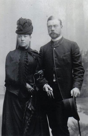 Colonel Ivar Sune Gordie (1853-1921), the police chief of Helsinki and the governor of Tavastia with his spouse Aina Wilhelmina Ascholin (1854–1933).